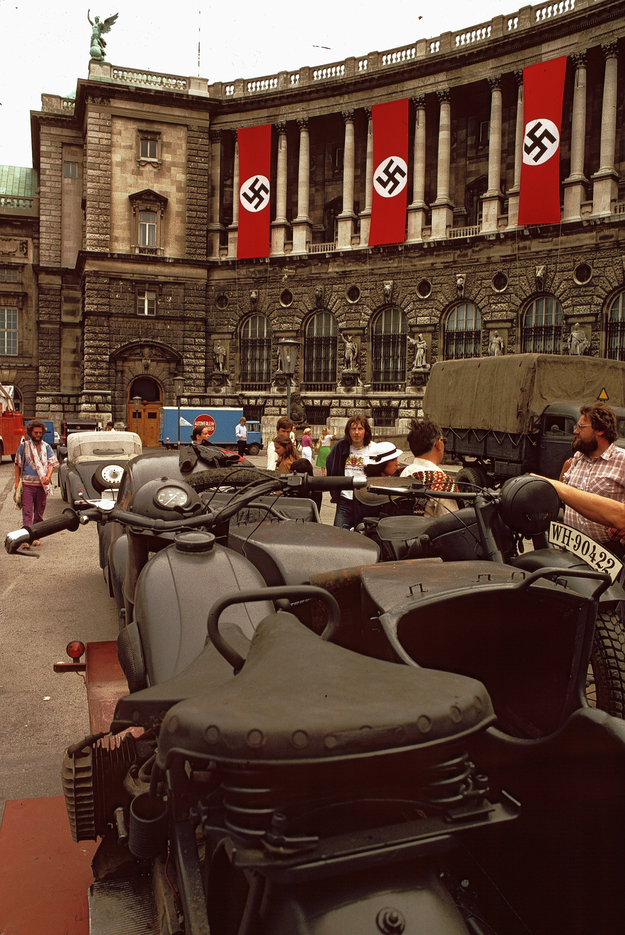 Film production of "Winds of War" in Vienna